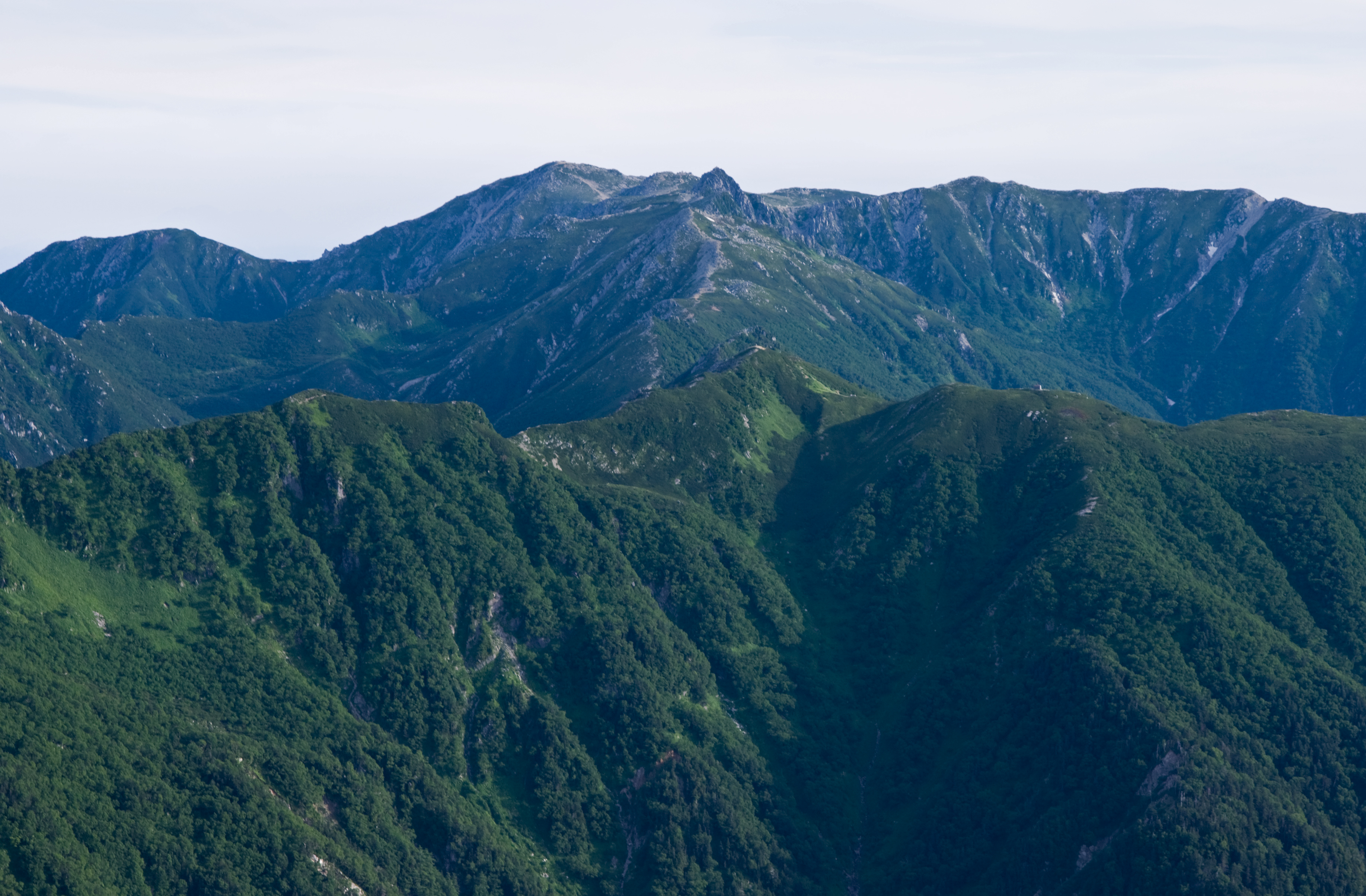 Mt.Kisokomagatake, from Mt.Utsugidake, Nagano, Japan.